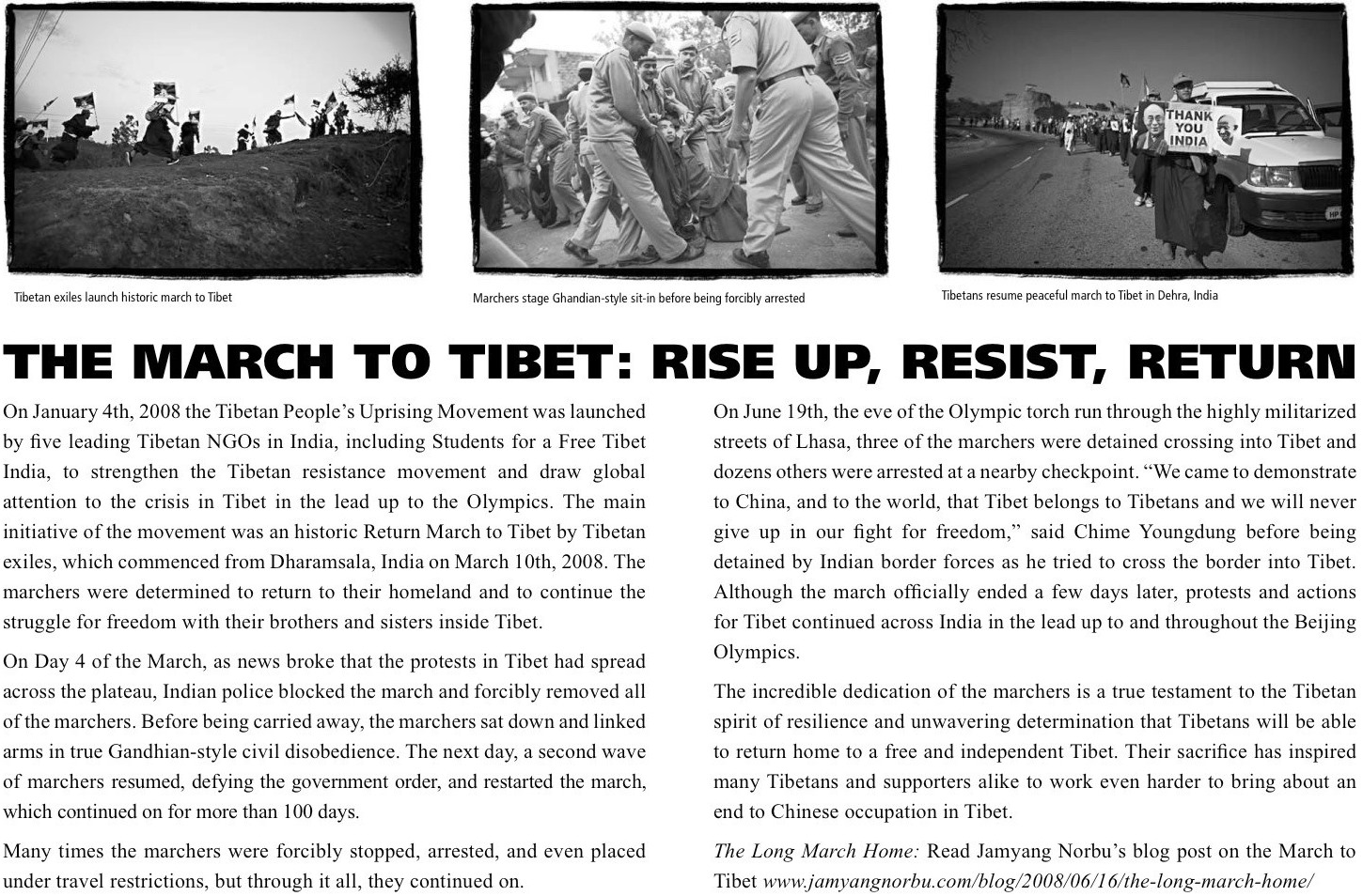 SFT's 2008 Olympics Commemorative Newsletter